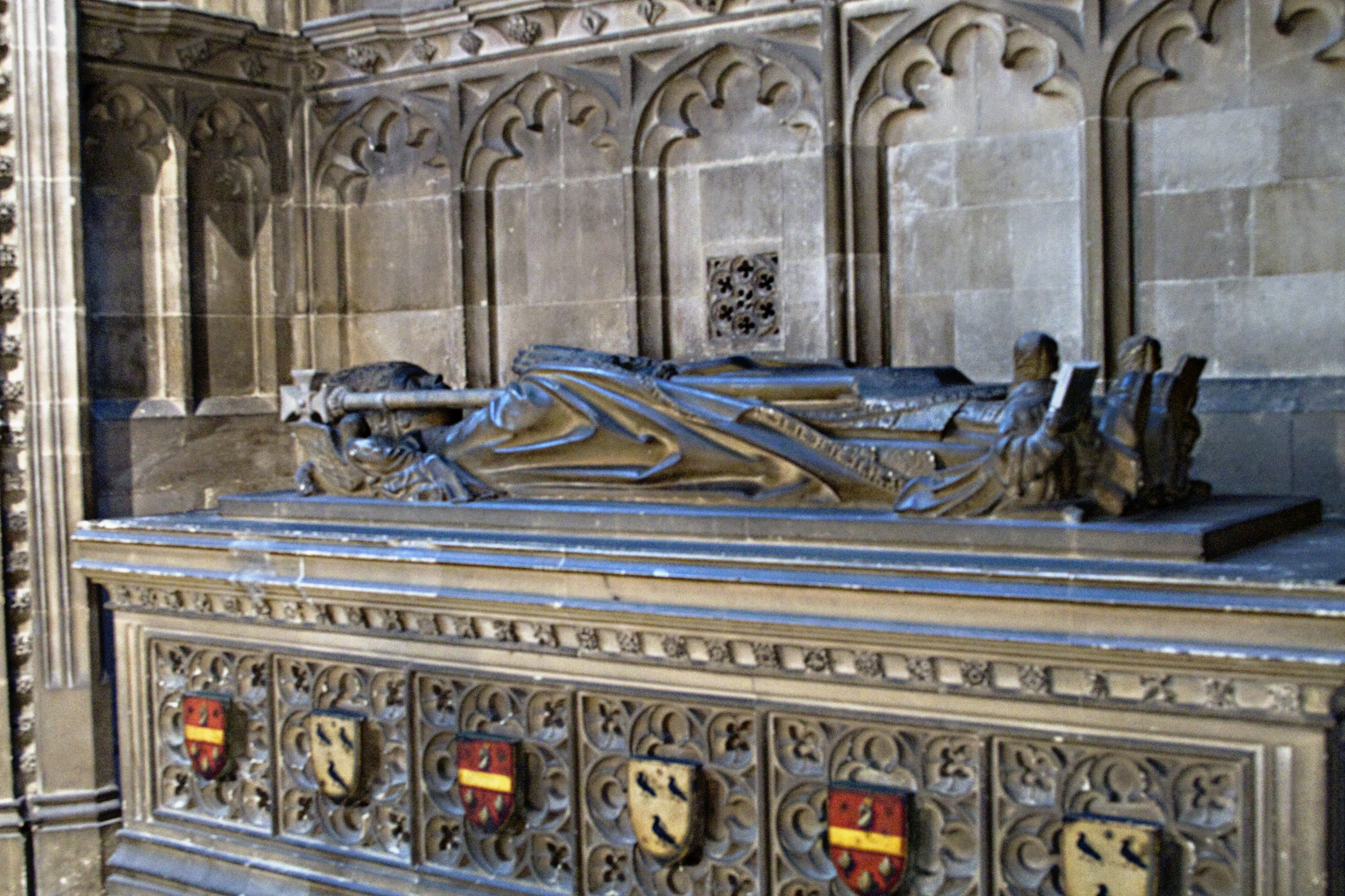 Tomb of William Warham, Archbishop of Canterbury, in Canterbury Cathedral, displaying alternately the arms of Warham: Gules, a fess or in chief a goat's head couped argent attired or in base three escallops two and one of the third (Burke's General Armory, with erased corrected to couped, as visible on repainted shields on his monument and as blasoned by Robson, Thomas, The British Herald[1]), and the attributed arms of Thomas Becket, Archbishop of Canterbury: Argent, three Cornish Choughs proper.